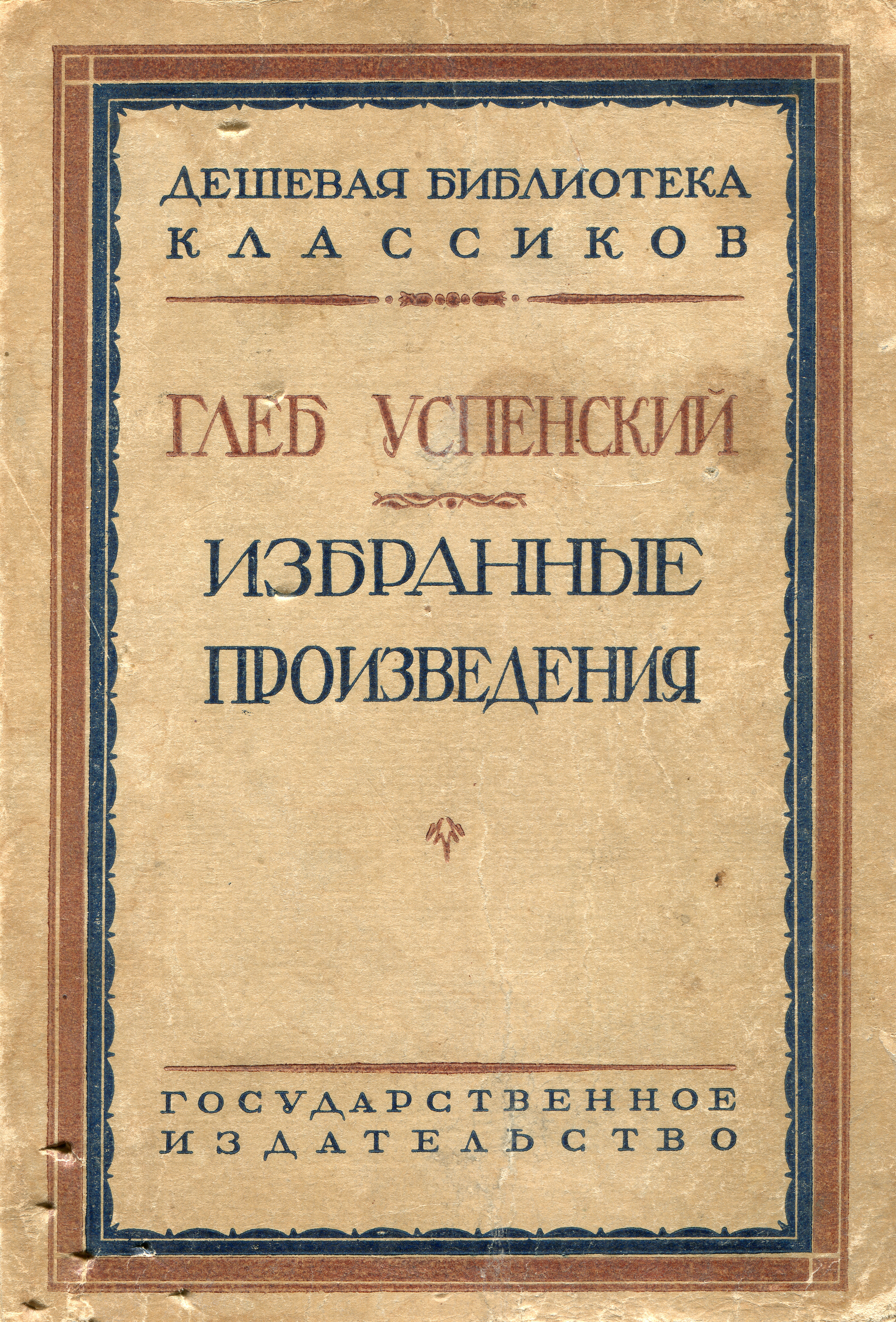 Gleb Uspensky. Featured Works.